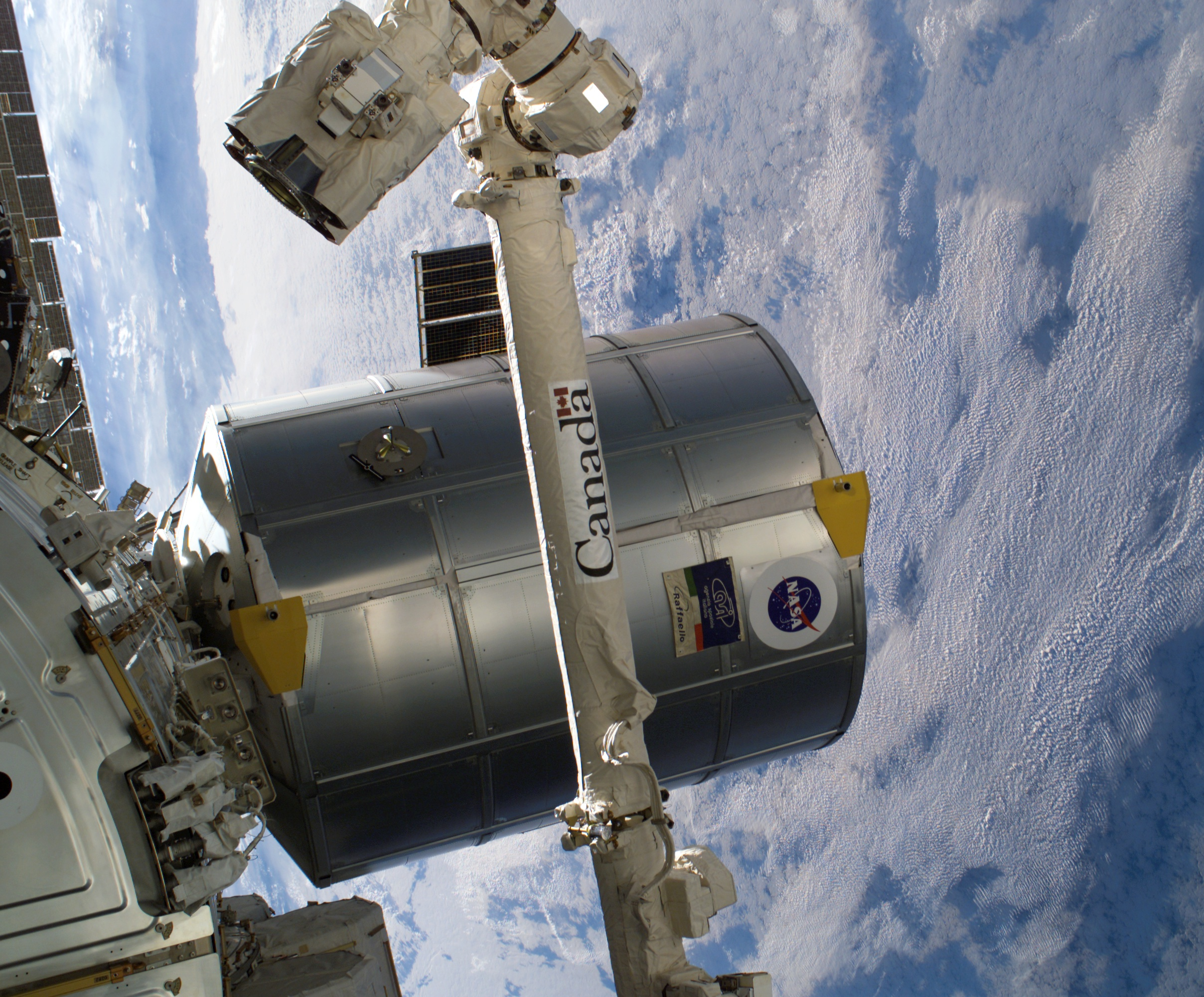 A blanket of heavy cloud cover forms the backdrop for this image featuring the Italian-built Raffaello Multi-Purpose Logistics Module (MPLM) and the Canadarm2 of the International Space Station. This image was photographed by astronaut Stephen K. Robinson (out of frame), STS-114 mission specialist, during today’s session of extravehicular activity (EVA)